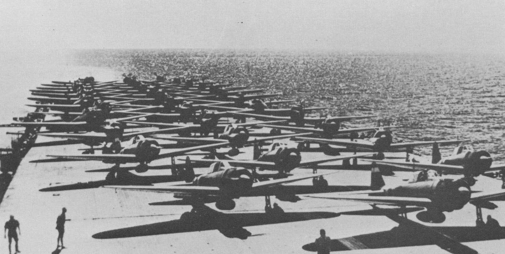 Imperial Japanese Navy aircraft carrier Zuikaku conducts air operations in the Indian Ocean in April 1942.